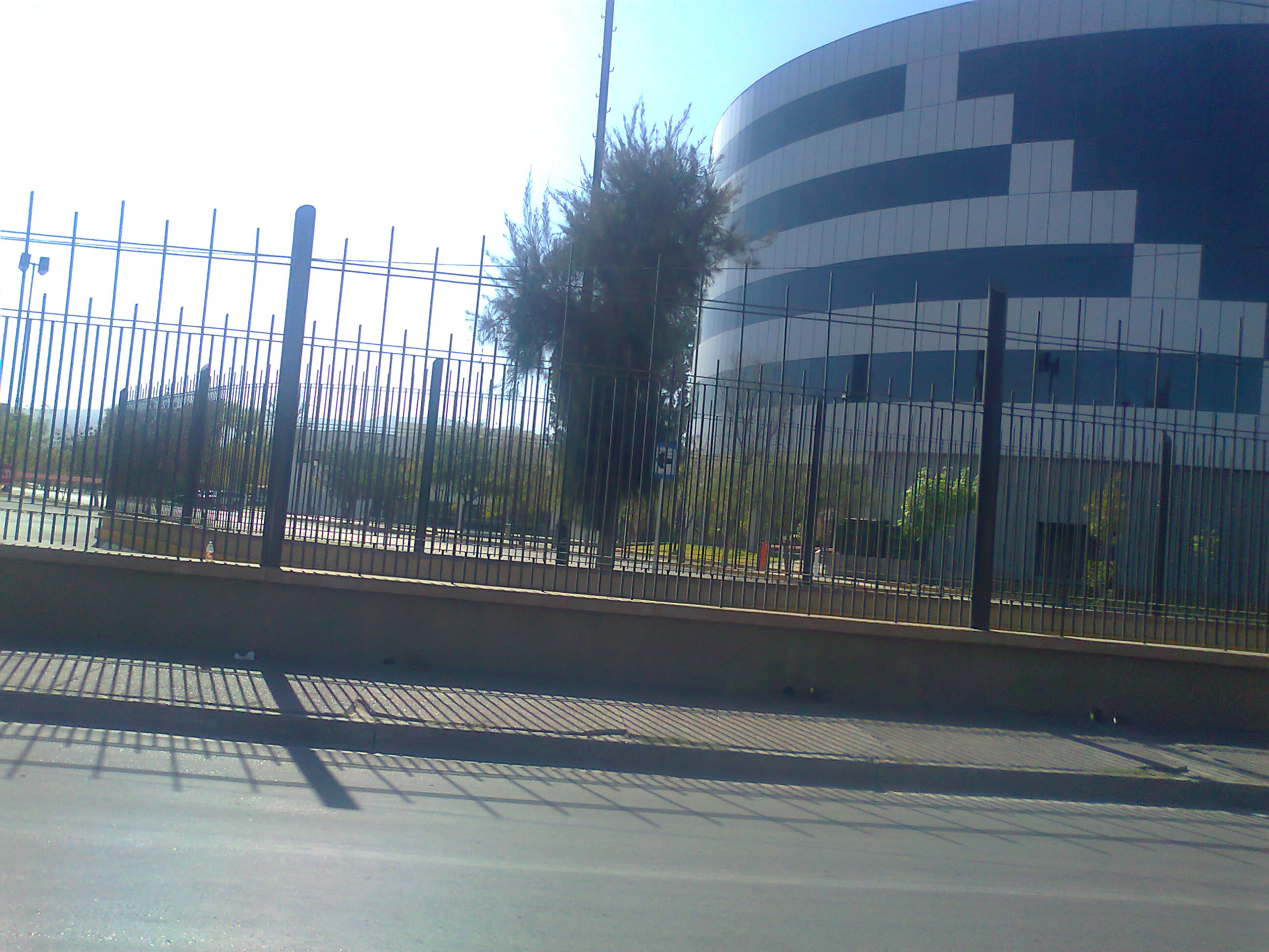 ITESM, outside of view of Laguna Campus.